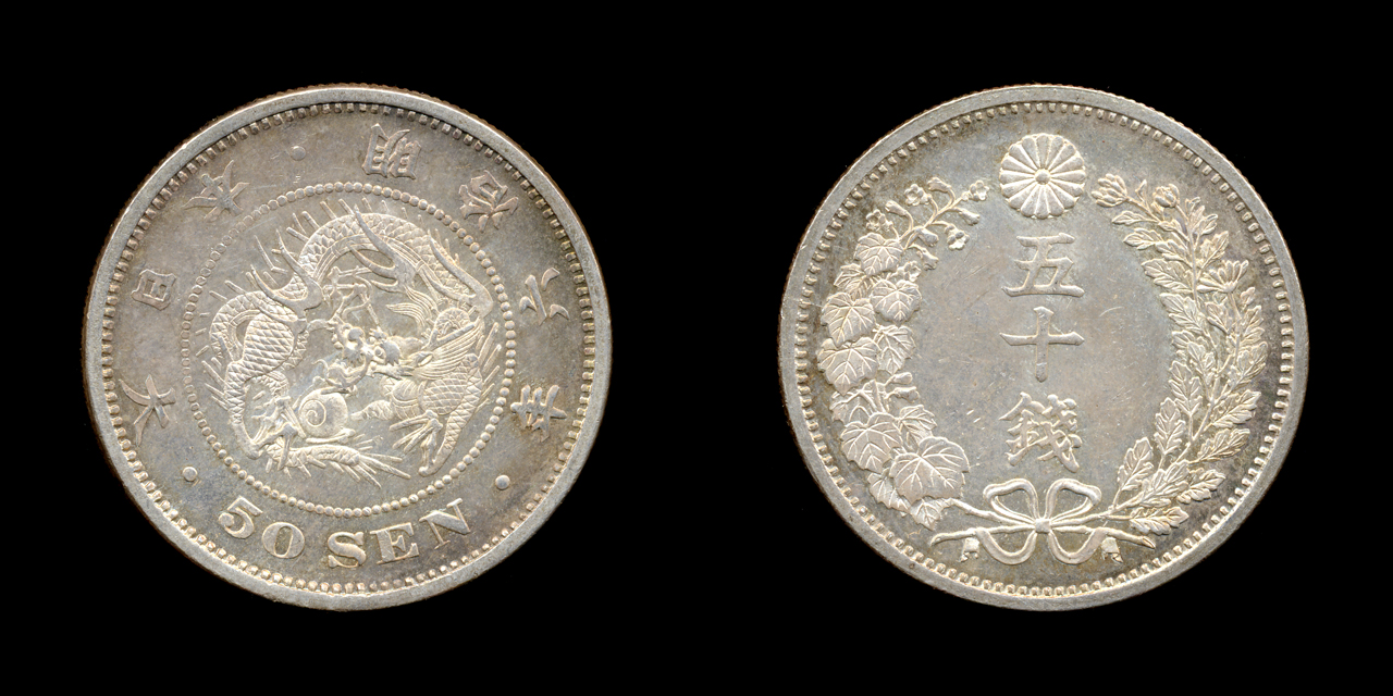 50sen-M6